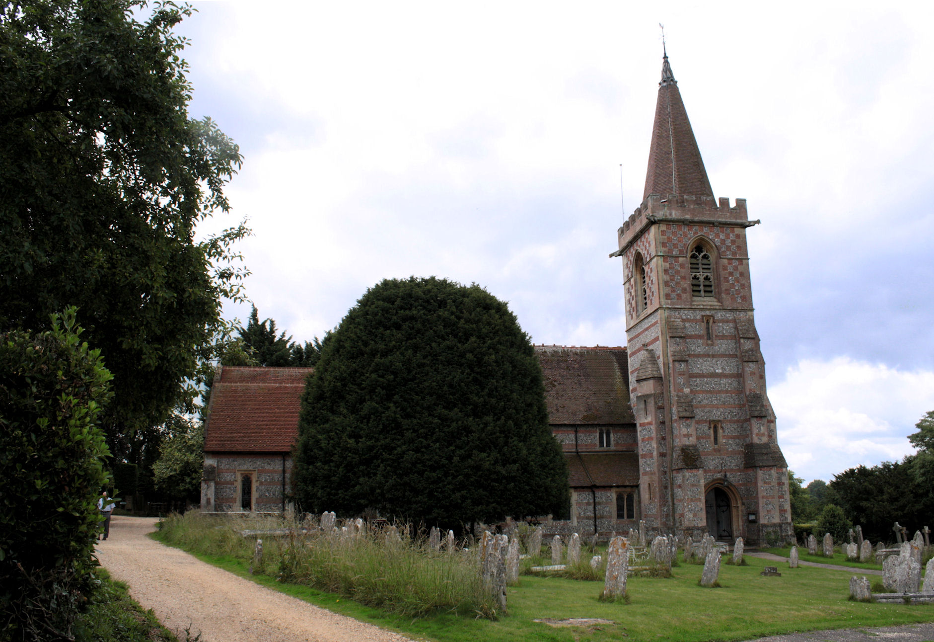 "Probably the first, Saxon church in Twyford was mentioned in the Domesday Book in AD 1088. This was replaced by a Norman church in the 12th Century, extensively rebuilt in 1402, although the basic structure of the Norman church remained in place. It is quite possible that the renowned conical yew was planted at about this time, as in 1988 the Yew Tree Conservation Foundation judged it to be 450 years old. By the early 1870s the old church was no longer able to accommodate everyone who wanted to attend services, and a replacement building in the Gothic style by the famous Victorian architect Alfred Waterhouse was opened in 1878. The ancient columns of the Norman building and some features of the 1402 building were incorporated in the new building - the East window (now in the Lady Chapel), the clerestory windows which were re-used, and the priest's entrance on the North side of the Vestry. The beautiful square-headed perpendicular window now in the East wall of the Vestry is thought to date from a later embellishment carried out in about 1520. The Vicar, the Revd Roger Buston, appointed in 1849, had devoted a lot of effort to making his services more attractive, building upon the musical tradition of the church with great success. It was on his initiative that a new pipe organ built by J W Walker of London had been installed in 1867, replacing a barrel organ of 1838. This organ was reinstalled in the new church. Few changes have been made since 1878. A new Lady Chapel, at the South East corner of the church, was presented in 1924 by the Revd Smith-Dampier, in memory of his parents who had lived at Twyford House. In 1965, the original tinted glass of the West window was replaced by a beautiful, predominantly blue stained glass design by Miss Moira Forsyth. Two meeting rooms, a small kitchen and toilet facilities were built within the West end of the church in 1995, with a new gallery above the meeting rooms."